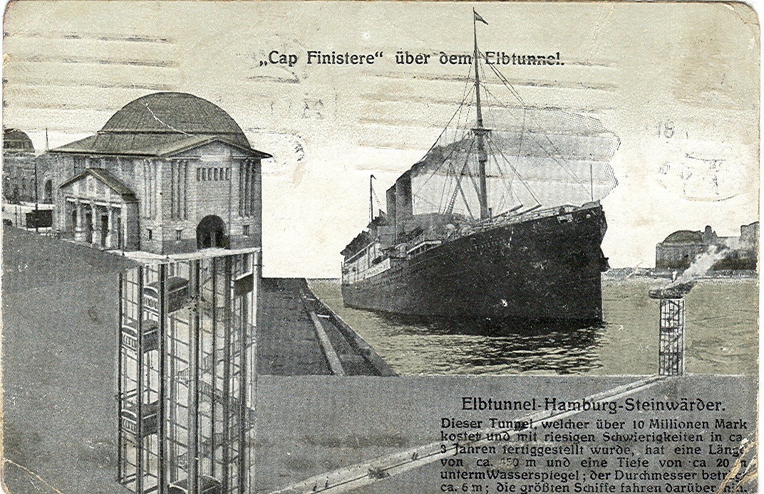 Postcard, dated 23.1.1917. Title: "Cap Finistere over Elbtunnel" and "Elb-Tunnel Hamburg-Steinwärder. This tunnel which was finished at the cost of 10 million marks under enormous difficulties is 450m long and ca. 20m in depth under sea level. Its diameter is ca.6m. The biggest ships pass above."